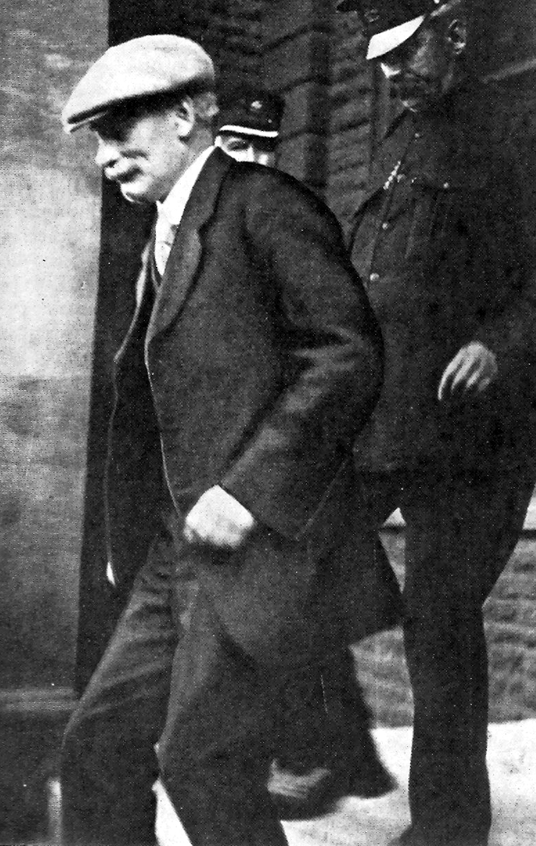 Harold Greenwood (solicitor) arriving at court for his trial.